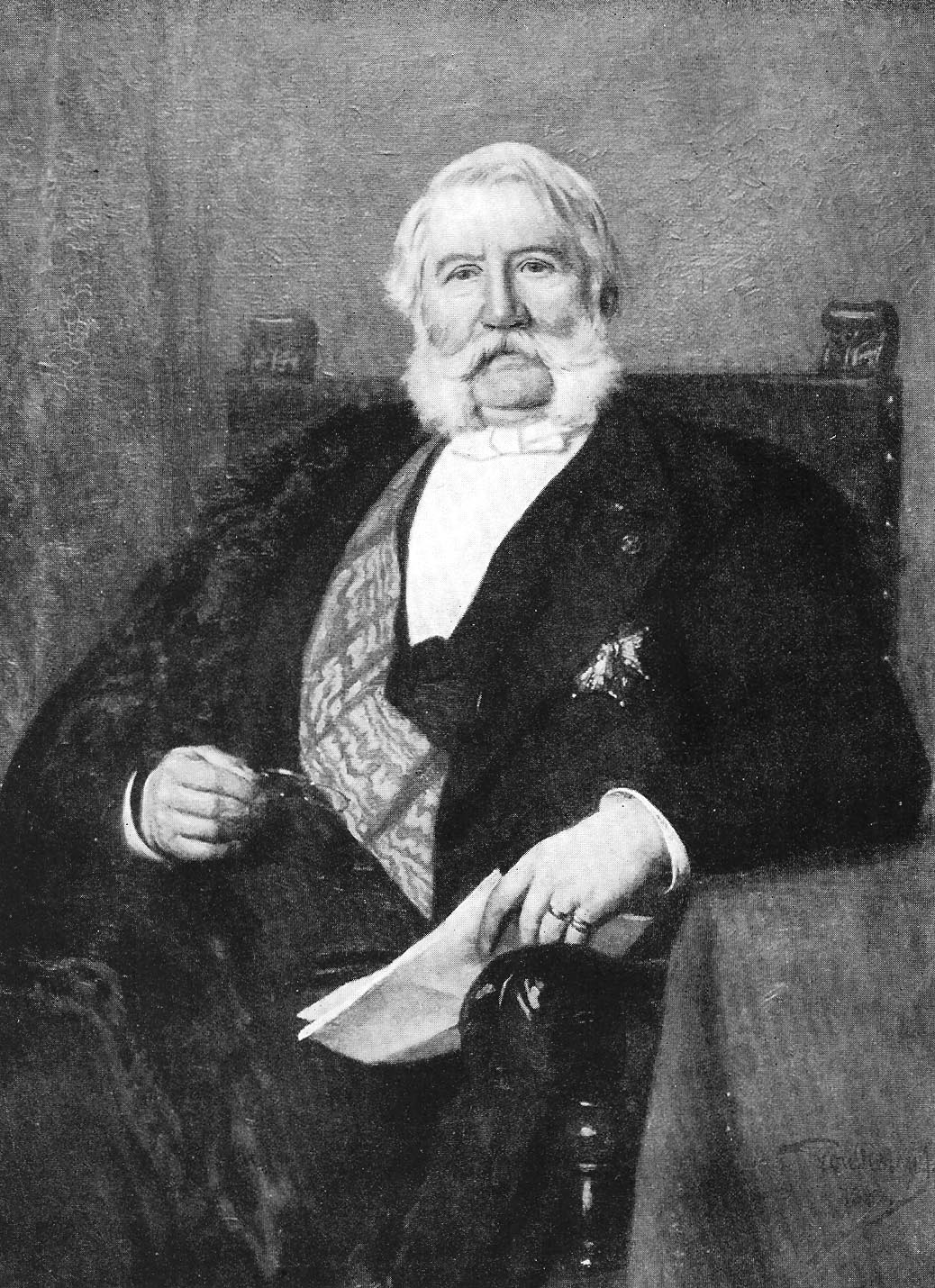 Swedish politician Carl Albert Ehrensvärd (1821-1901)